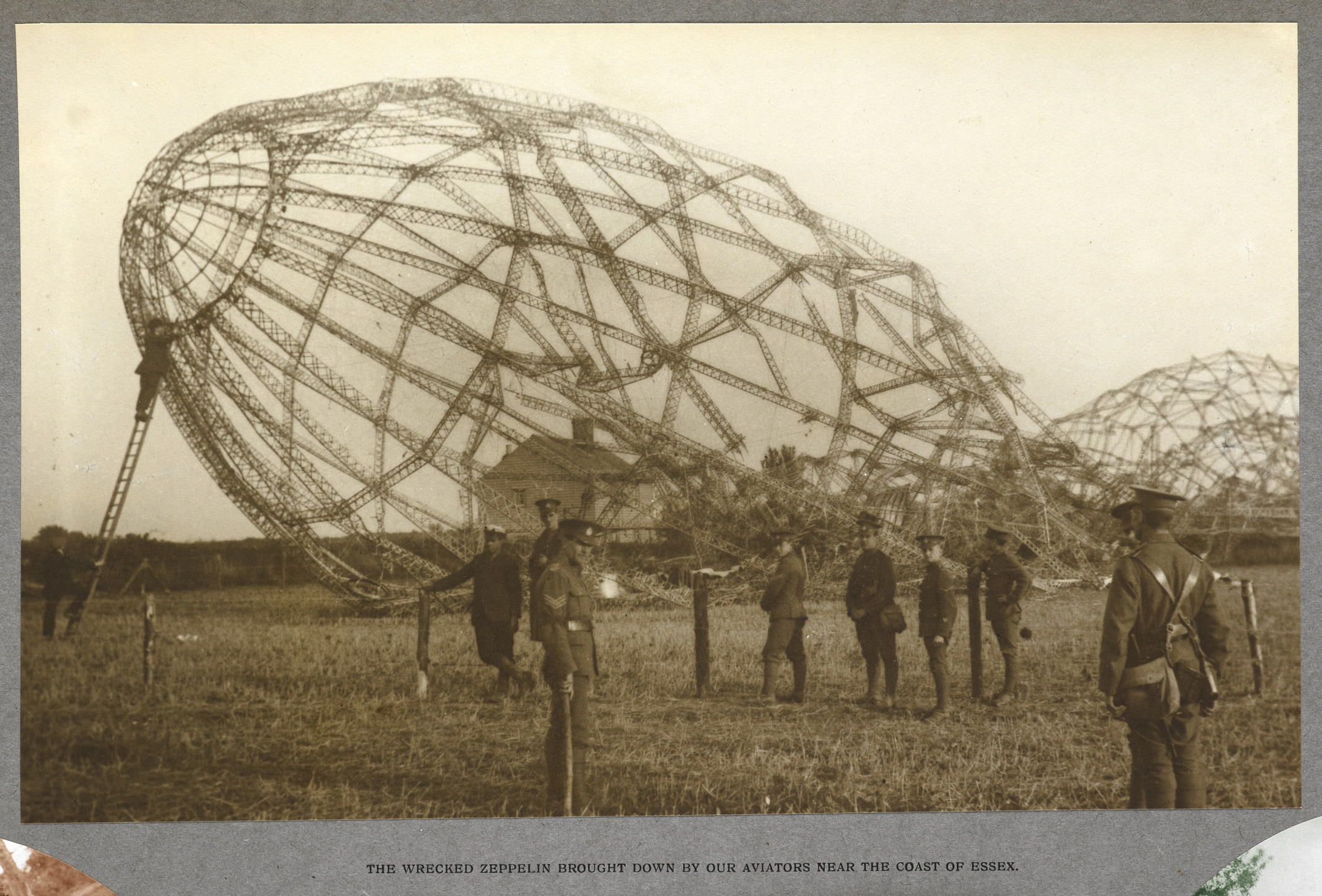 The skeleton of an airship which crashed in a field. 1915. Collection note: "The photographs appear in a variety of sizes, shapes and colours including shades of blue, green and brown. They record scenes of military life as experienced by the Indian and British armies in France during the First World War." Added: This is the wreck of Zeppelin LZ 76 (also designated L 33), which was torched by its crew after making a forced landing at Little Wigborough, near Colchester in Essex, after sustaining serious damage from an anti-aircraft shell and British fighter aircraft, returning from a bombing raid over London on 23 September 1916,.